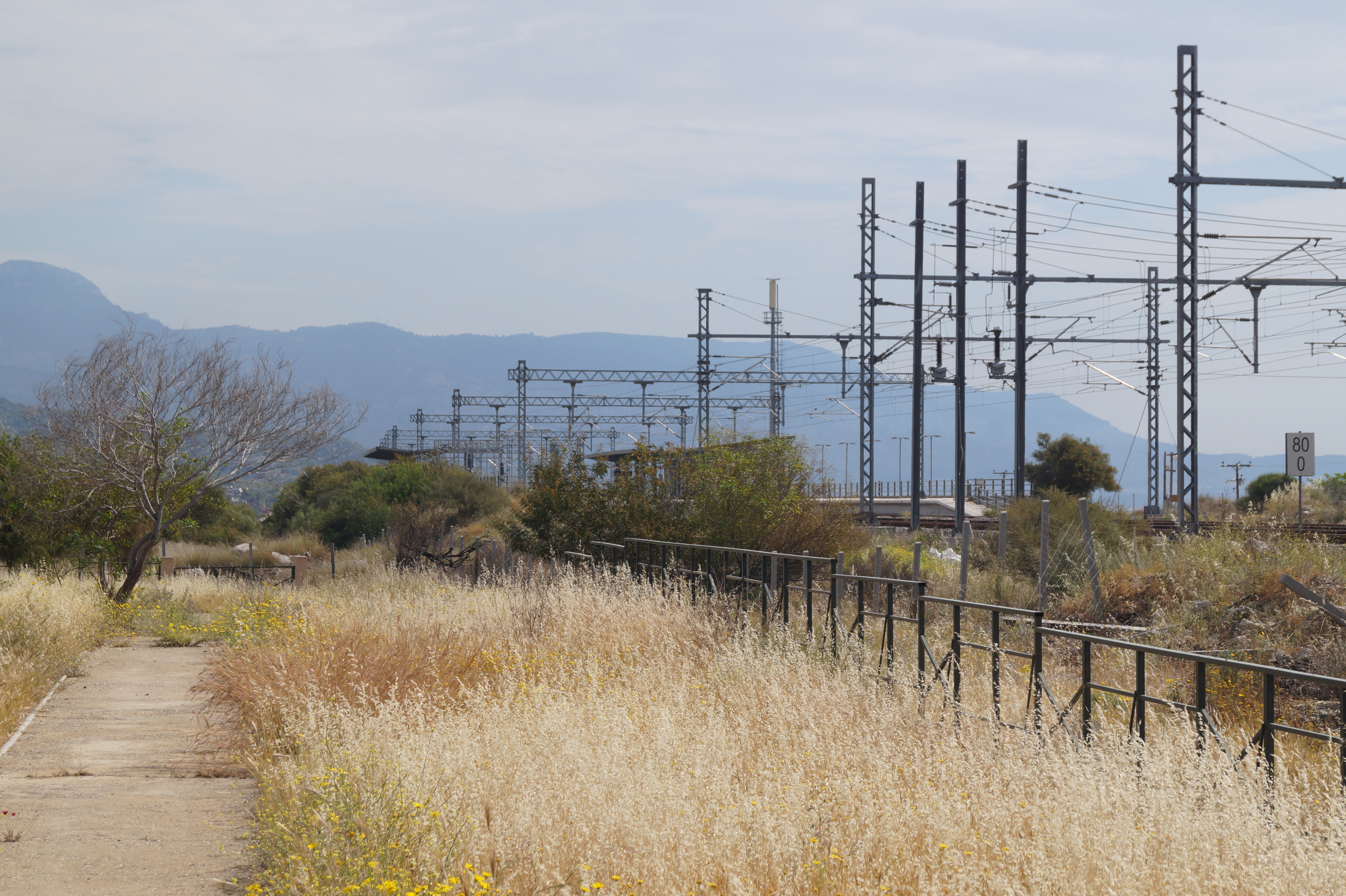 Krommyon, Agioi Theodoroi, Greece: View from the archaeological site to the railway station of Agioi Theodoroi.